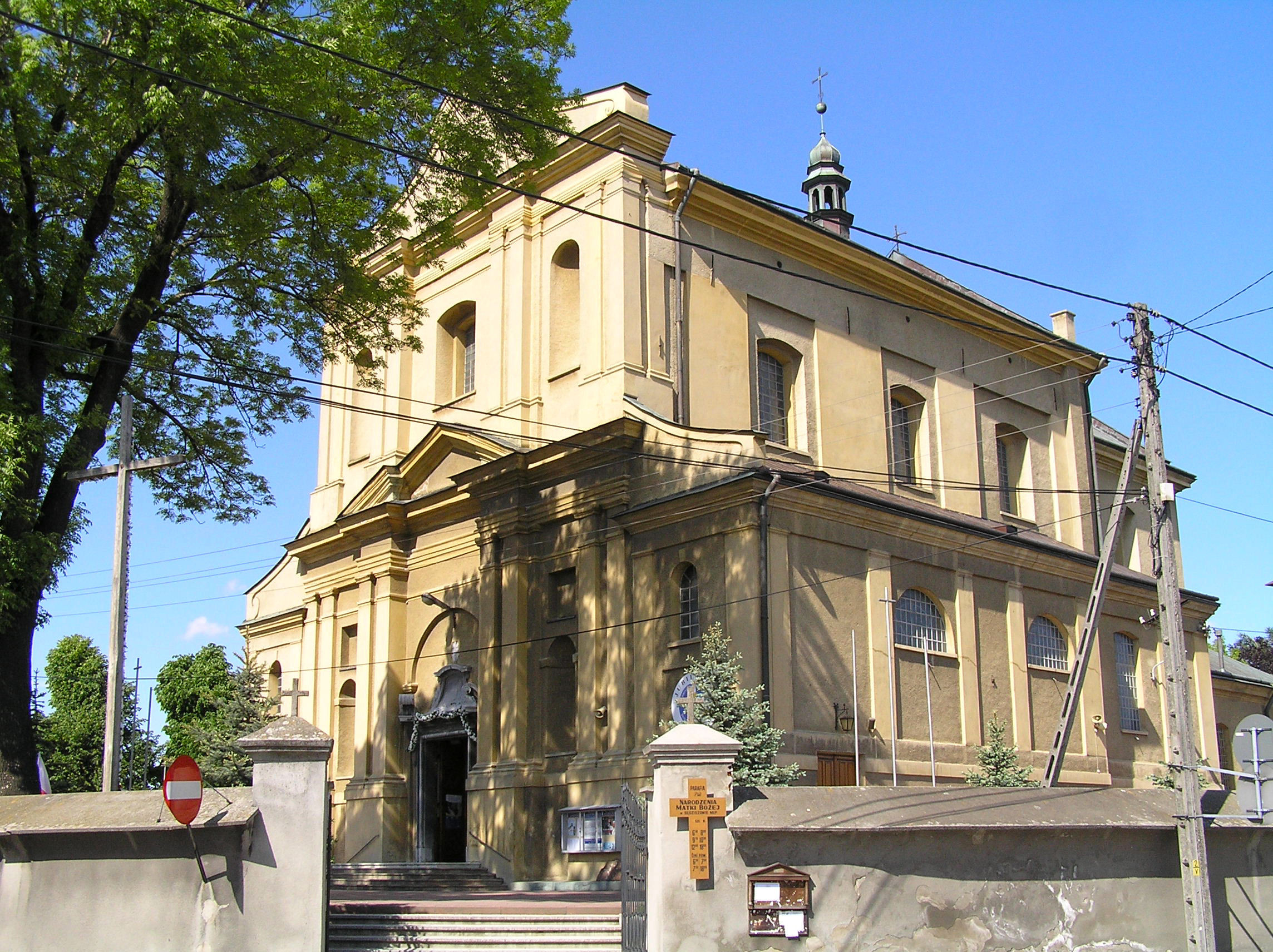 The Birth of the Most Holy Virgin Mary's Church in Sędziszów Małopolski, Poland